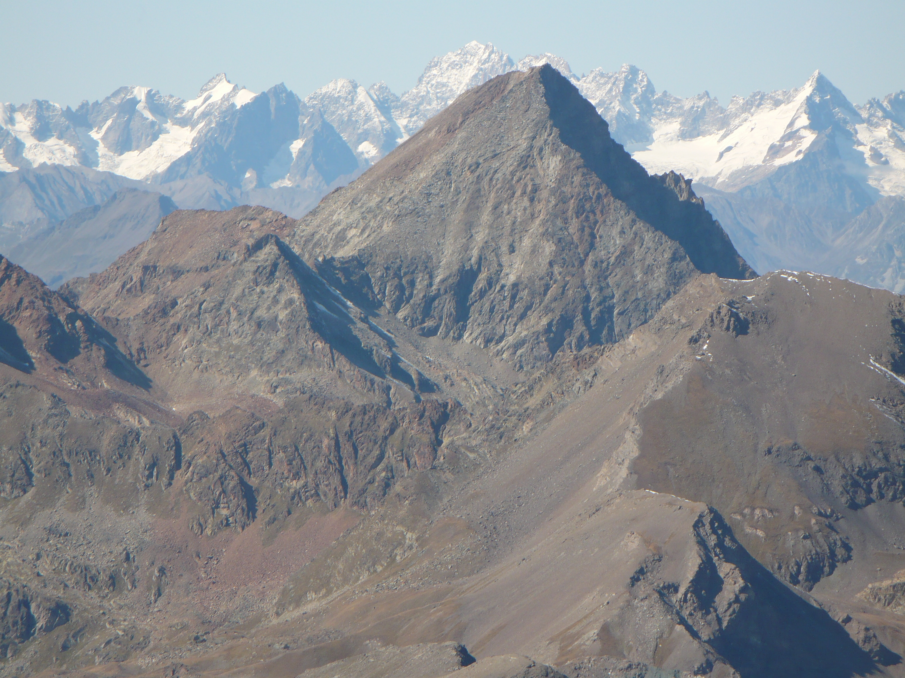 Mount Emilius - Graian Alps - Aosta Valley - Italy